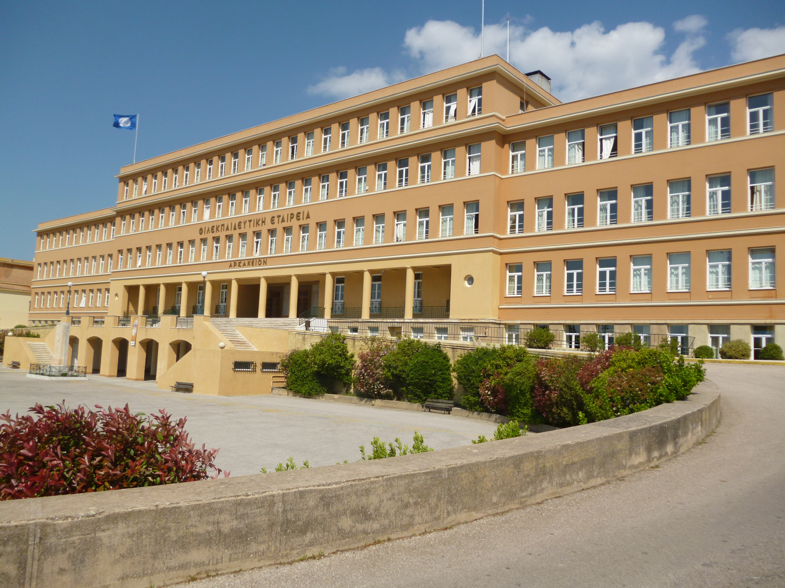 Main building of the elementary and secondary Arsakeia schools of Athens, in Palaio Psychiko.